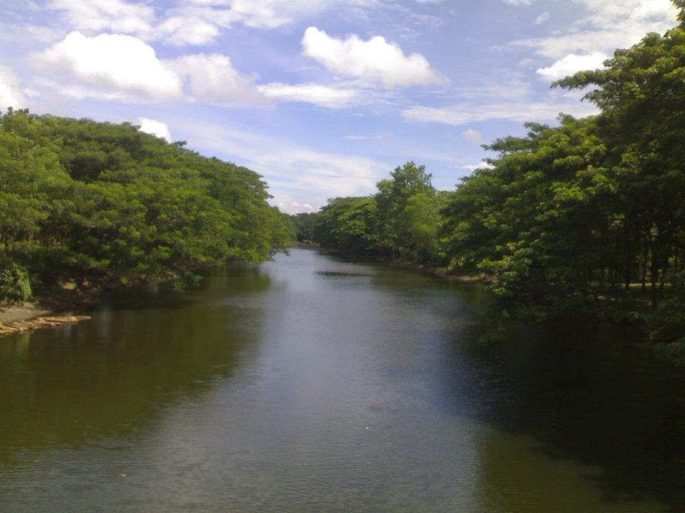 Taken in Manirampur Upazila, Jessore, Bangladesh with mobile phone: Nokia N72